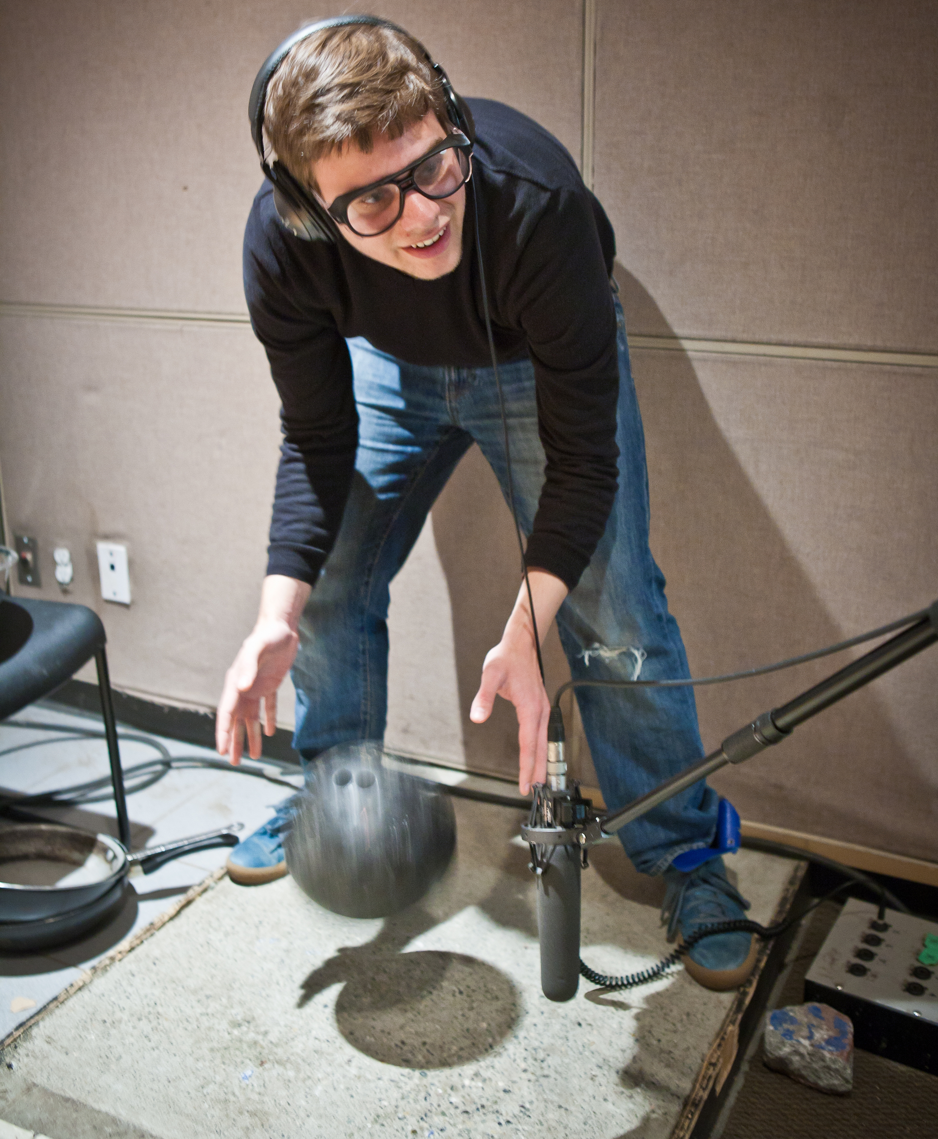 Foley is the art of recording post-production sound effects in real time to match the picture. VFS has its own Foley studios full of all the usual - and unusual - props.